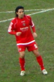 Hugo Colace